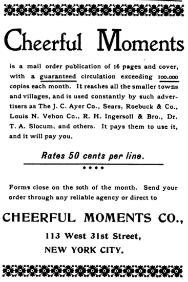 Advertisement for "Cheerful Moments" magazine in 1899 National Newspaper Directory and Gazetteer.